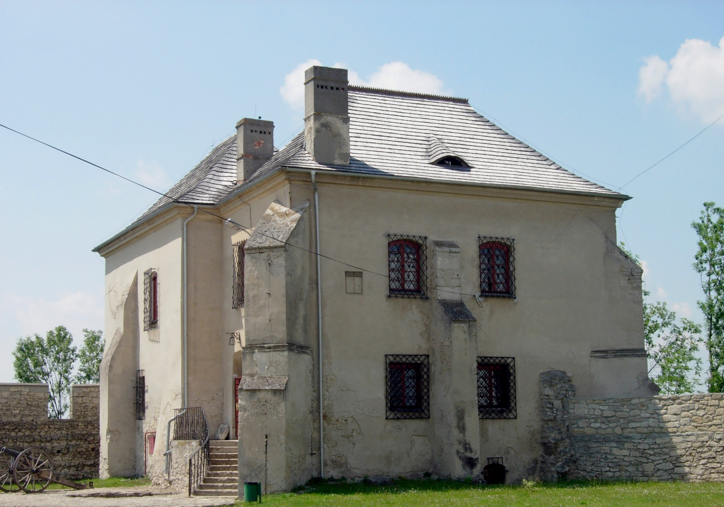 The Castle in Szydłów, The Treasure House